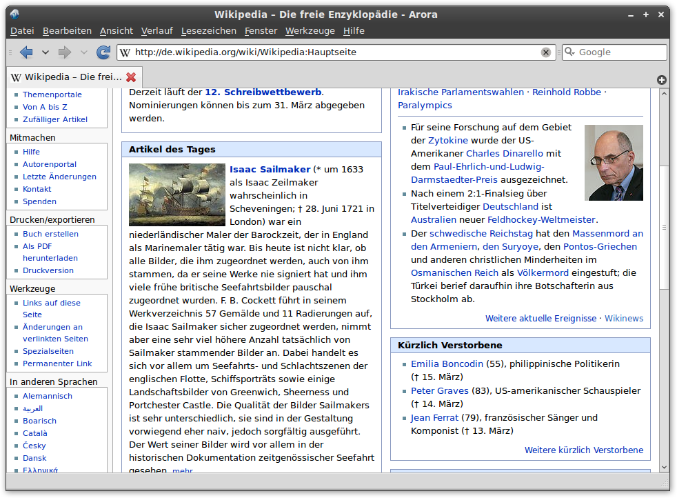 German screenshot of Arora 0.10.1